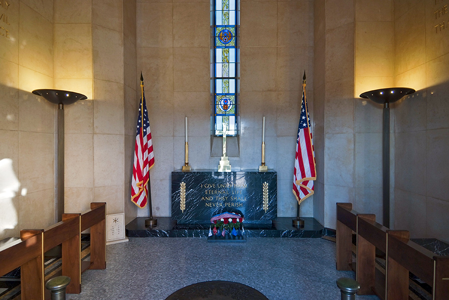 Luxembourg American Cemetery and Memorial